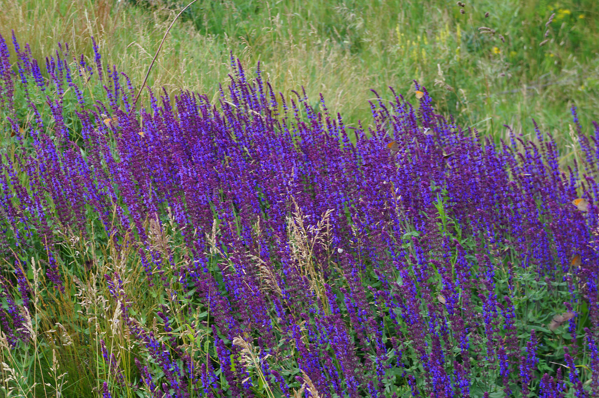 Wildflower (Salvia nemorosa) at the kurgan Kamaraš in Horgoš, Serbia [BAC431]